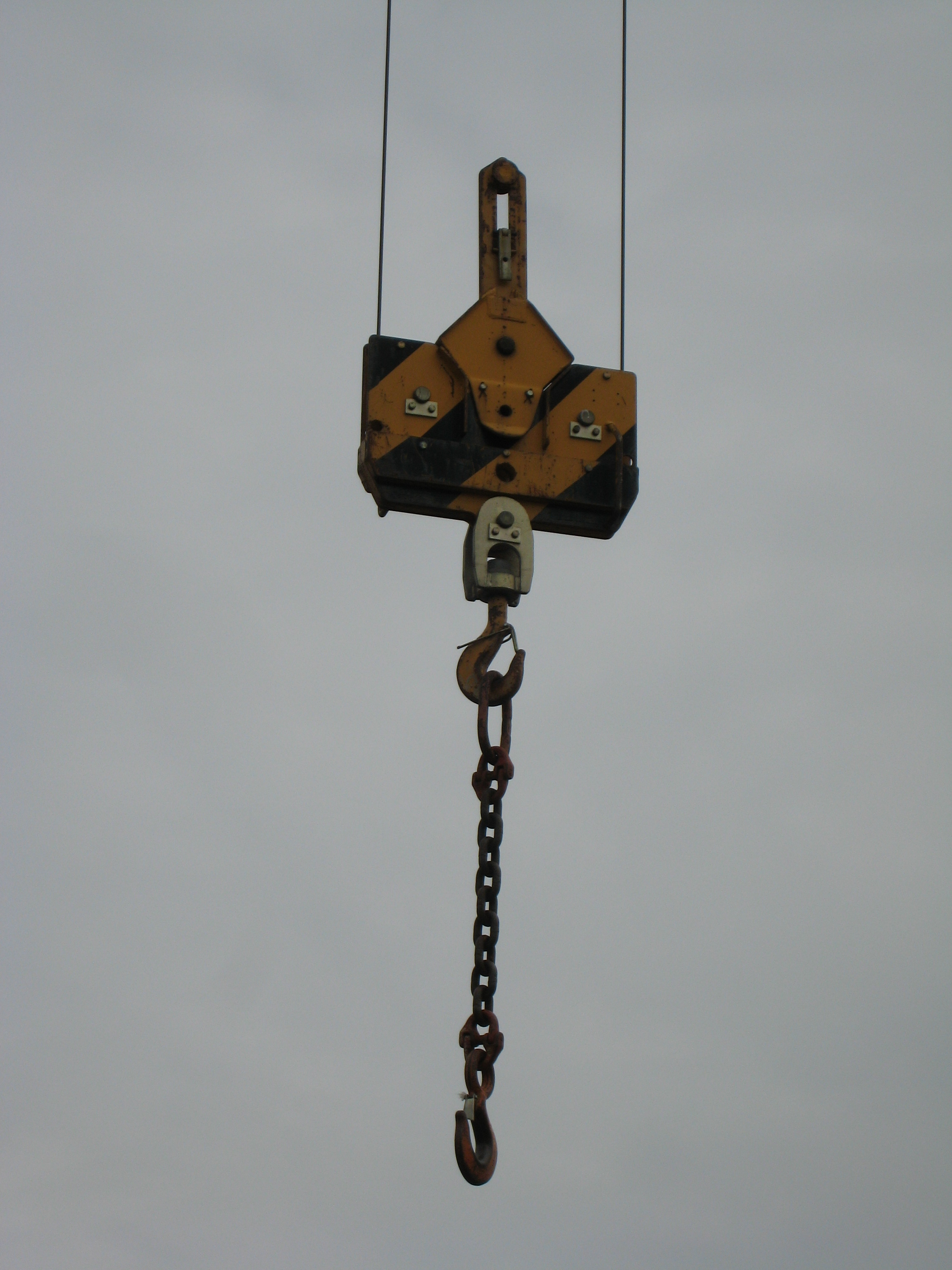 crane - hook